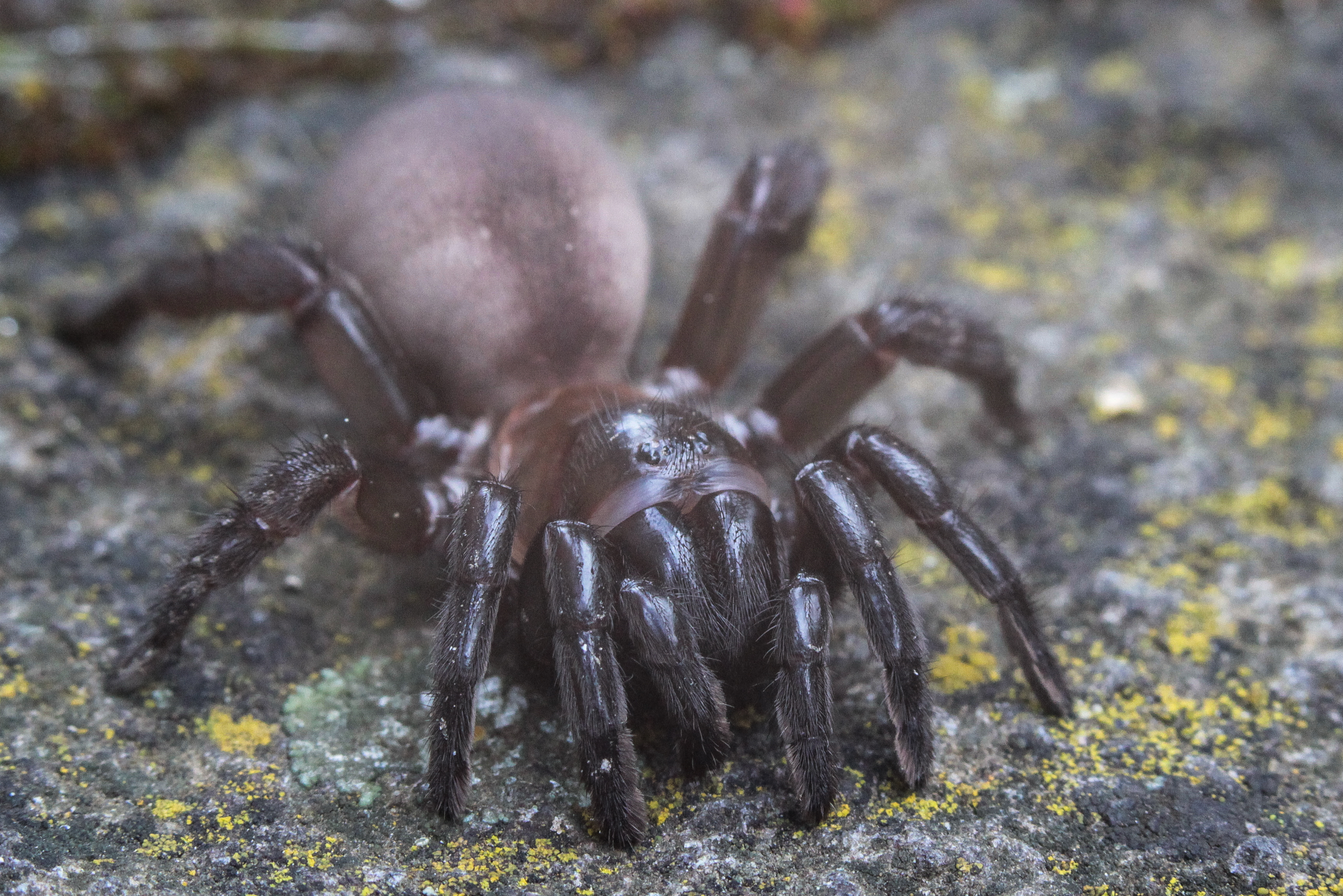 Female of a trap spider Amblyocarenum nuragicus, photographed in Laerru, Sardinia